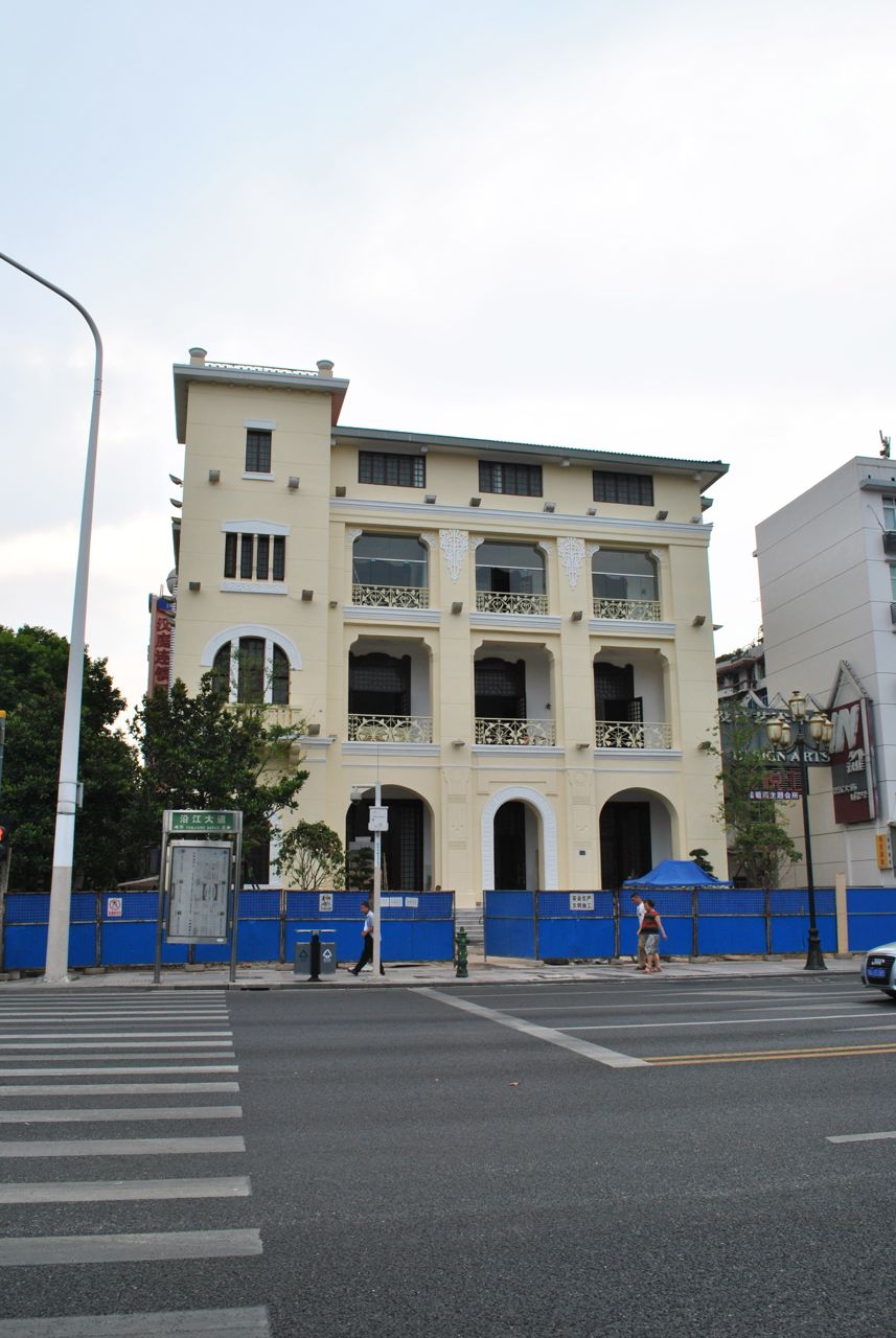 华俄道胜银行大楼